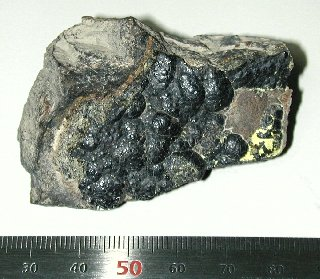 Author is Joachimsthal,Bohemia,Czechoslovakia Creative commons